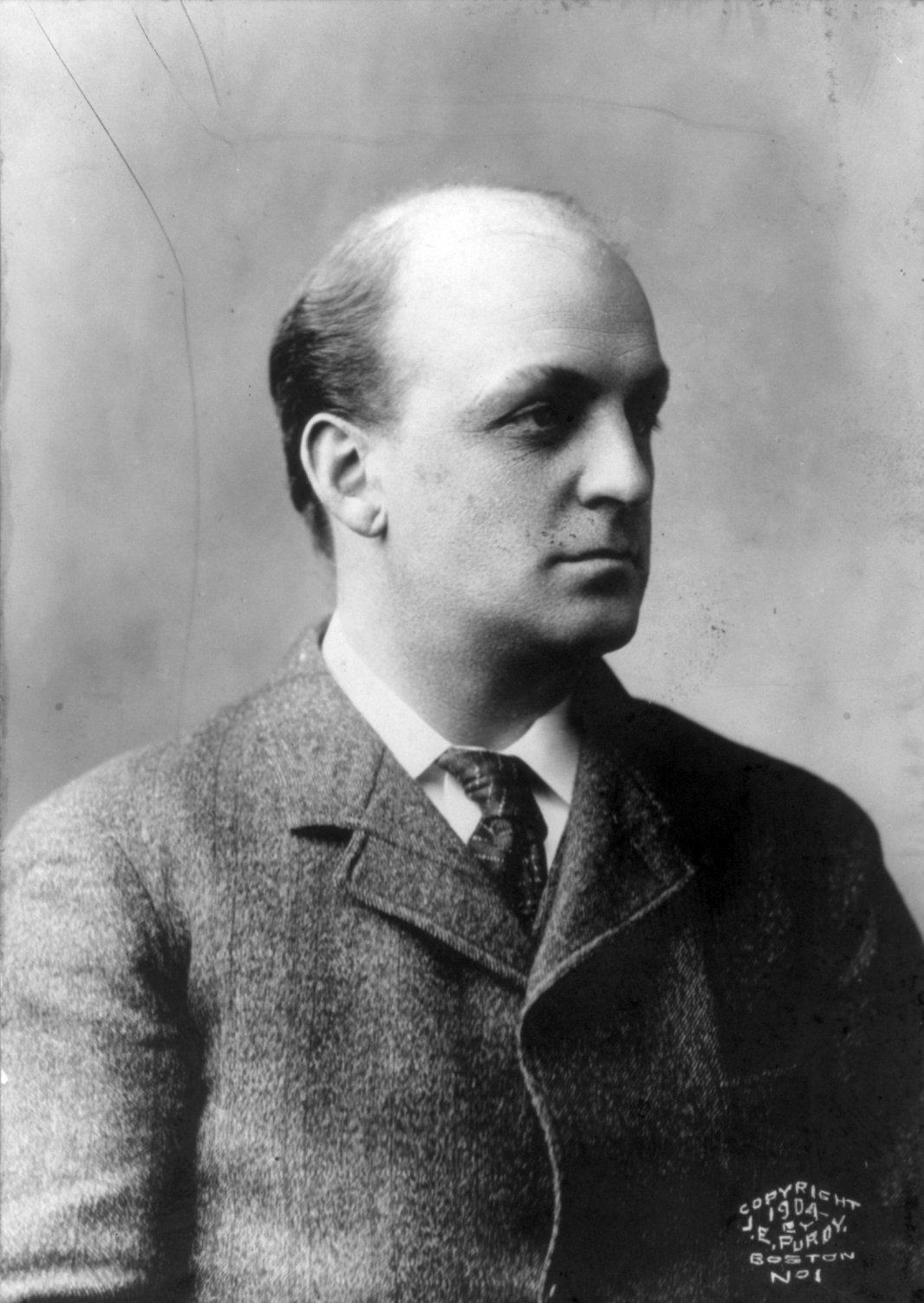 William Cameron Forbes, Governor-General of the Philippines and later U.S. ambassador to Japan